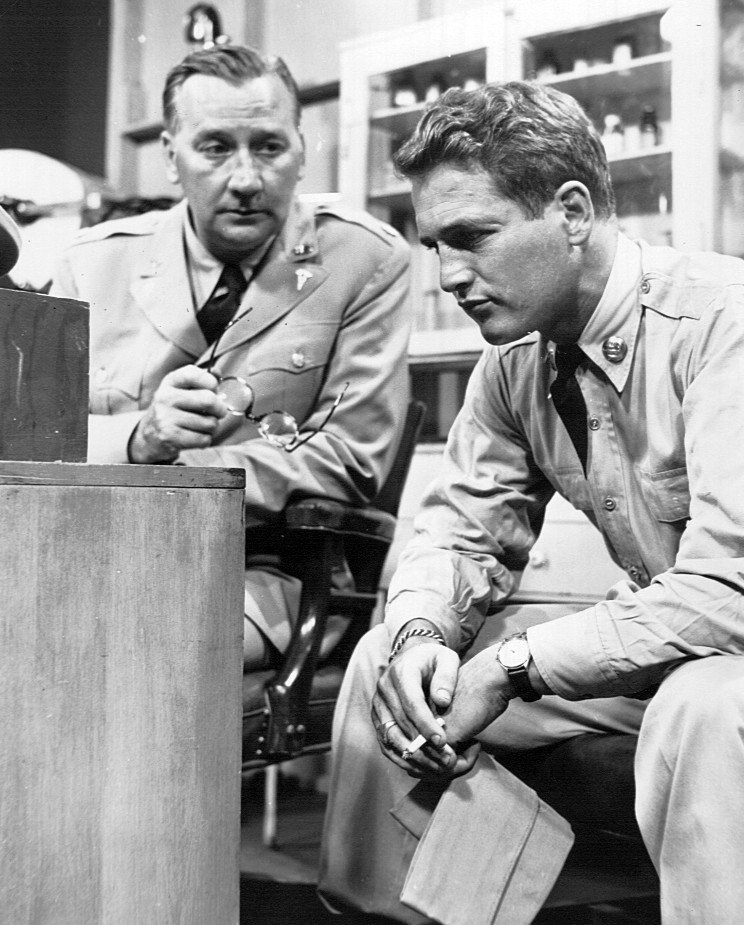 Photo of Edward Andrews and Paul Newman from the Kaiser Aluminum Hour presentation of "Army Game'. The item has no copyright markings on it as can be seen in the links above.